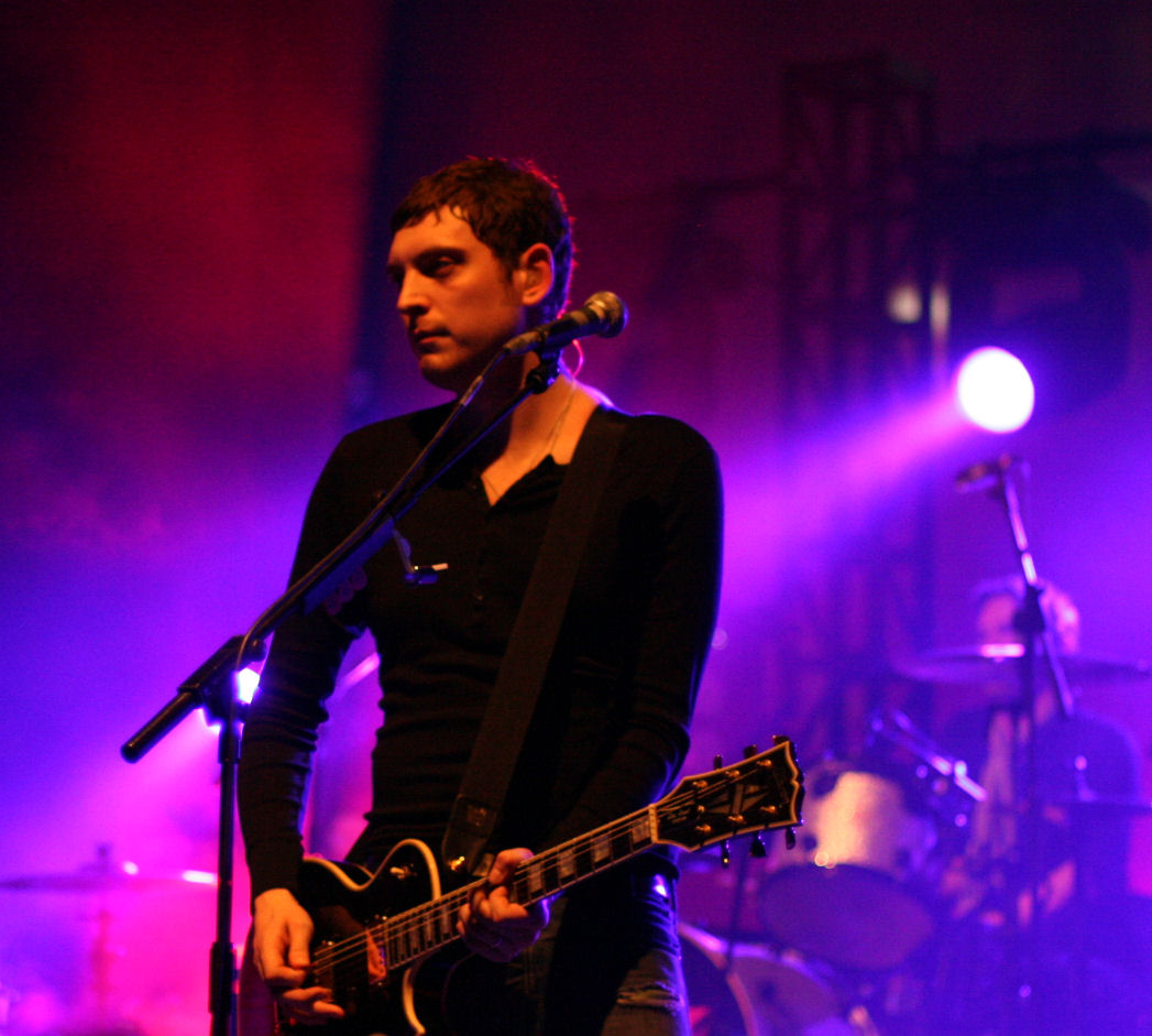 Nathan Connolly, Bloomsbury Theatre London, 2008